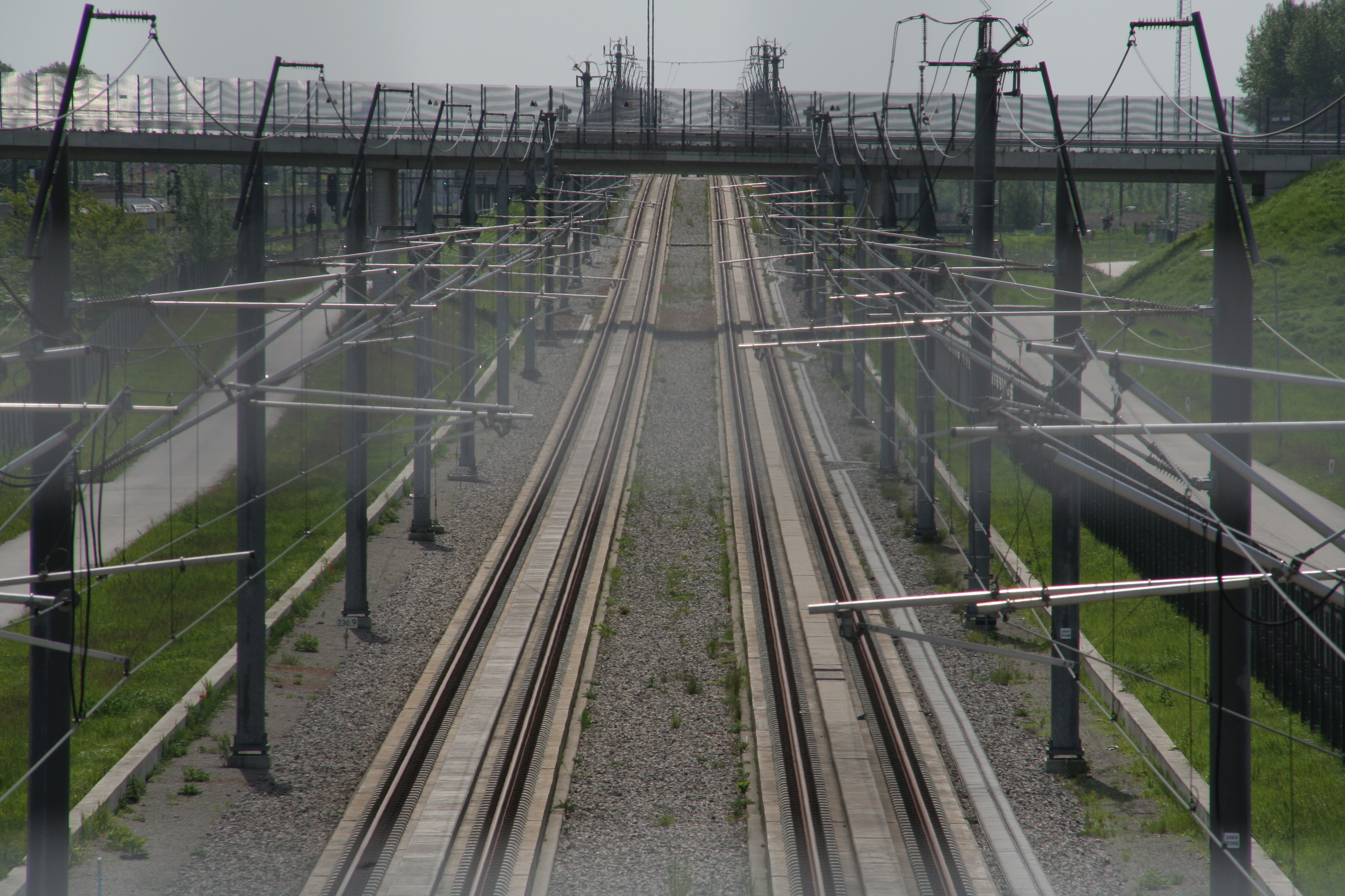 HSL ZUid